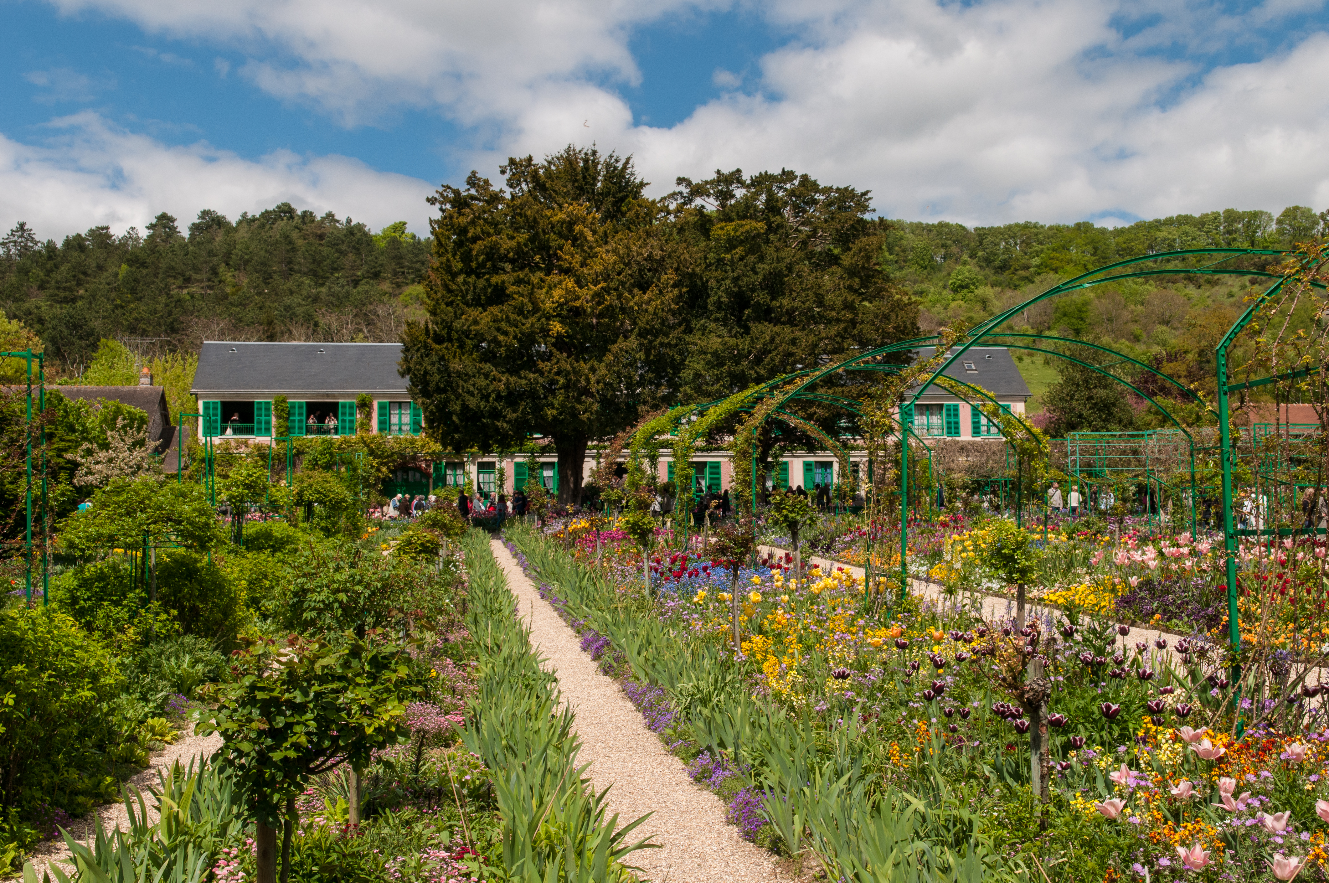 Claude Monet house and garden in Giverny